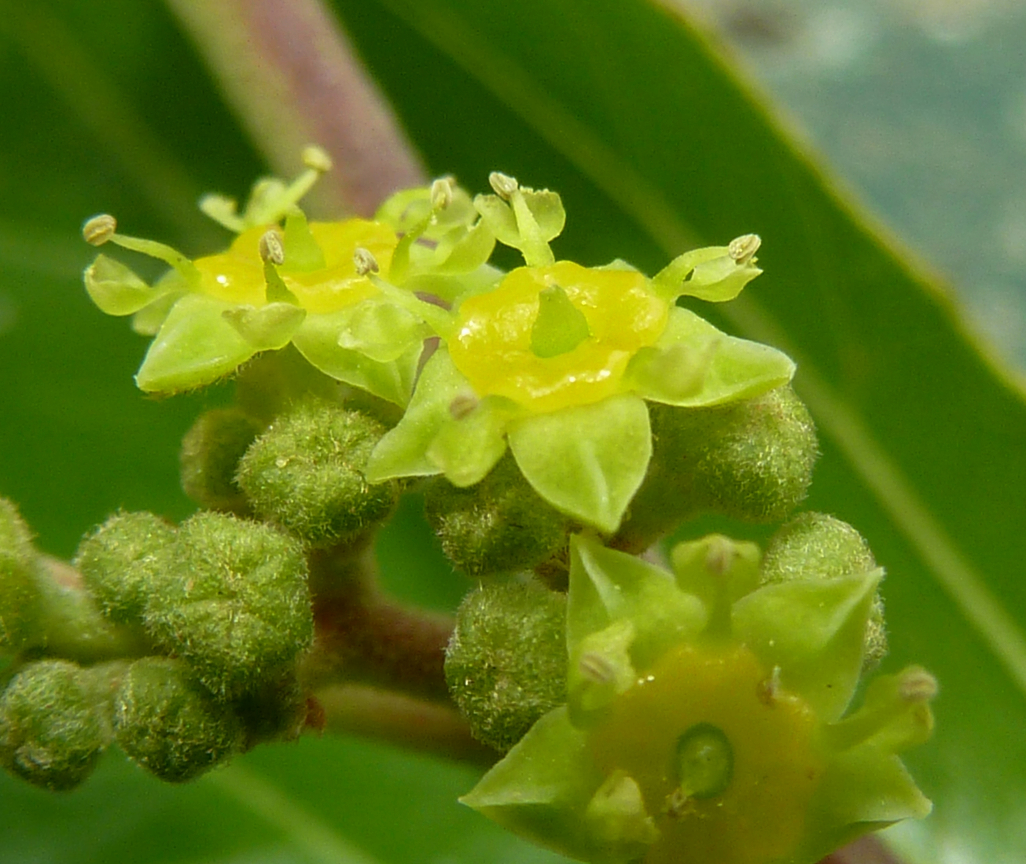 Flowers of a Buffalo thorn in Roodeplaat Nature Reserve near Pretoria